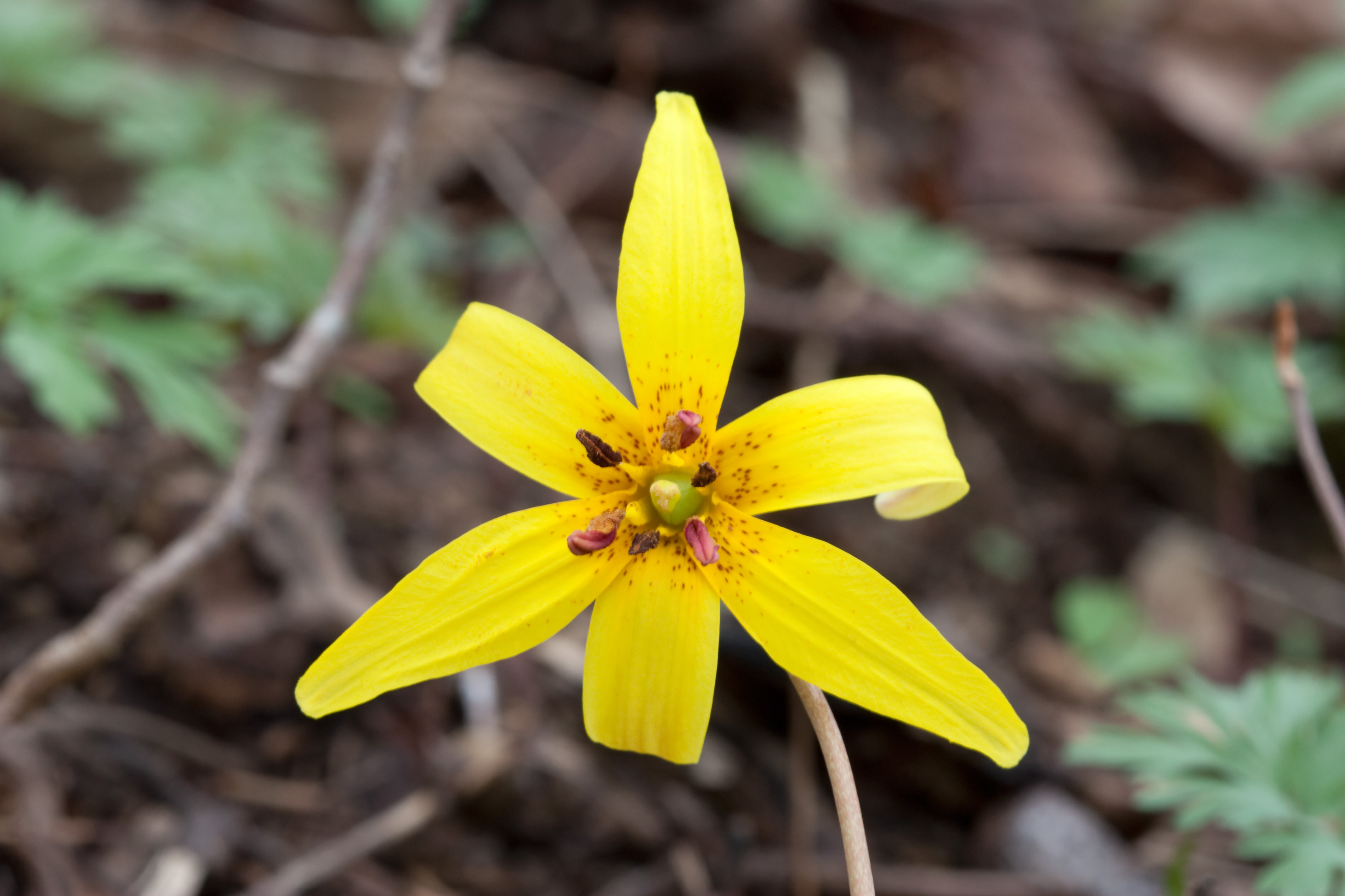 Trout lily (Erythronium americanum) at Radnor Lake in Nashville, Tennessee